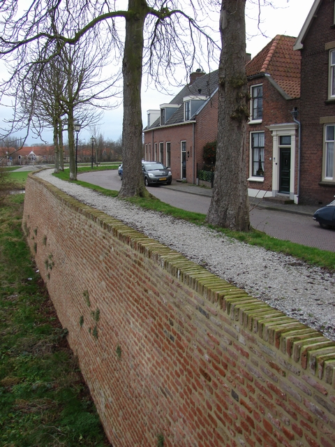 Citywal Buren